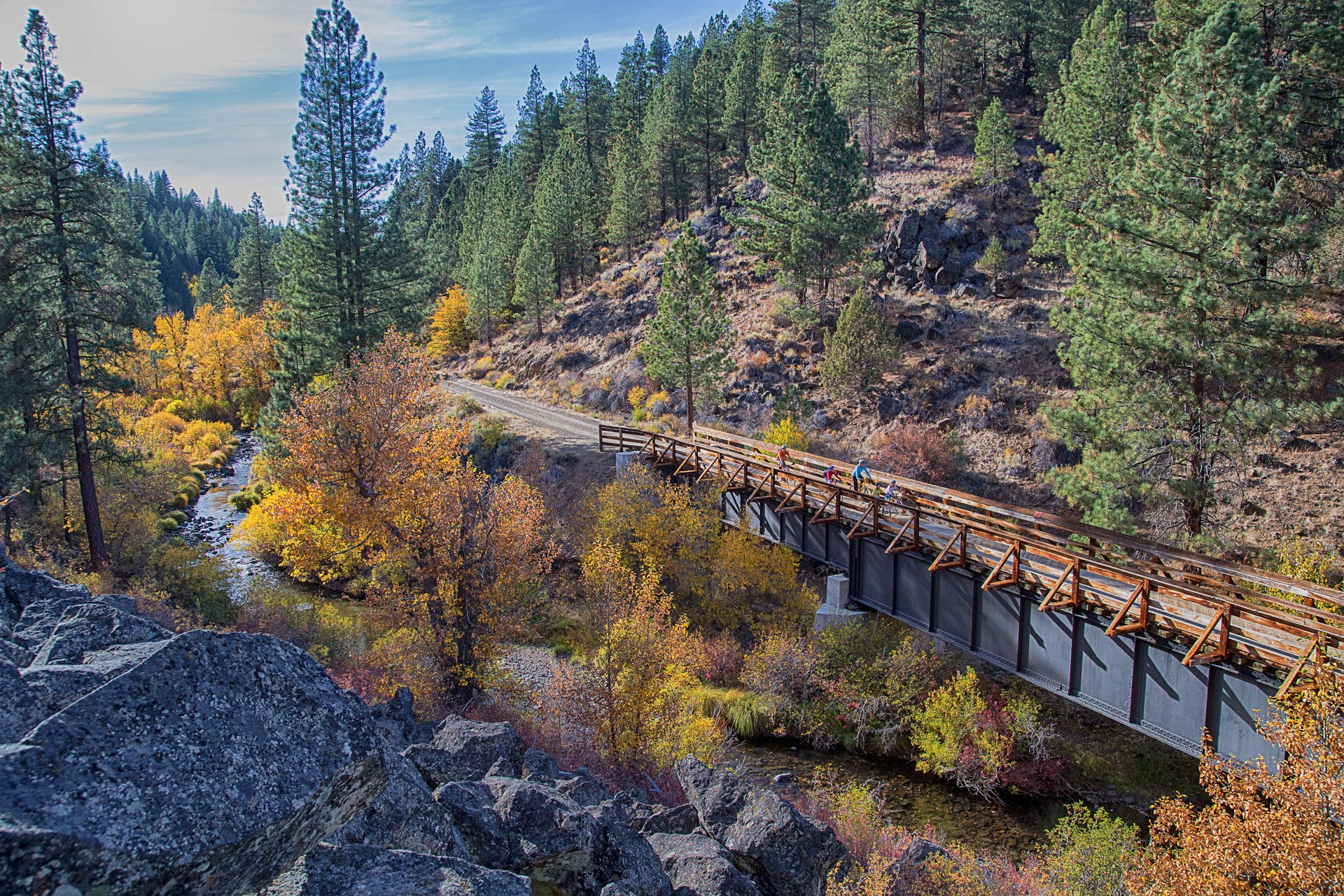 A view of the Bizz Johnson Trail in Susanville during the Fall Colors ride last weekend!